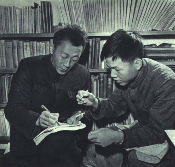 Huang Kun and student Gan Zizhao in the 1960s